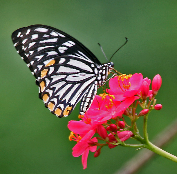 Common Mime (Papilio clytia- dissimilis form) in Kolkata, West Bengal, India.